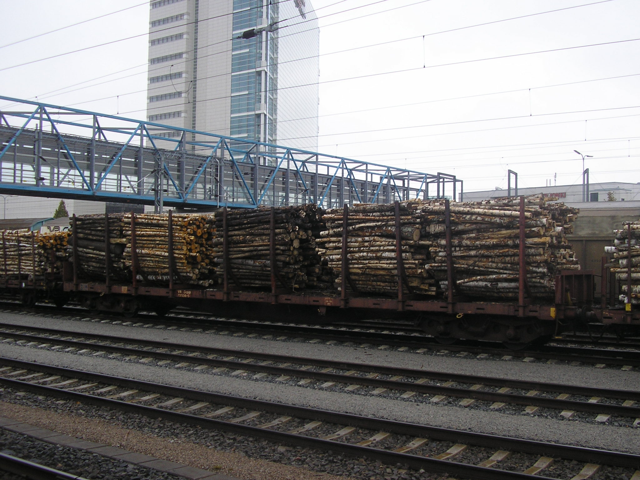 Birch and Populus tremula(?) lumber on Ocpp wagon at Jyväskylä railway station